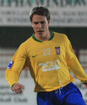 Nicky Wroe playing for York City against Droylsden at Butcher's Arms Ground, Droylsden on 1 January 2008